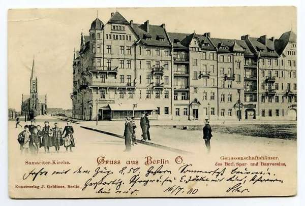 Shot from (the current) Bänschstraße (at that time Mirbachstraße) south of the park Forckenbeckplatz. The crossing street is Proskauer Straße.